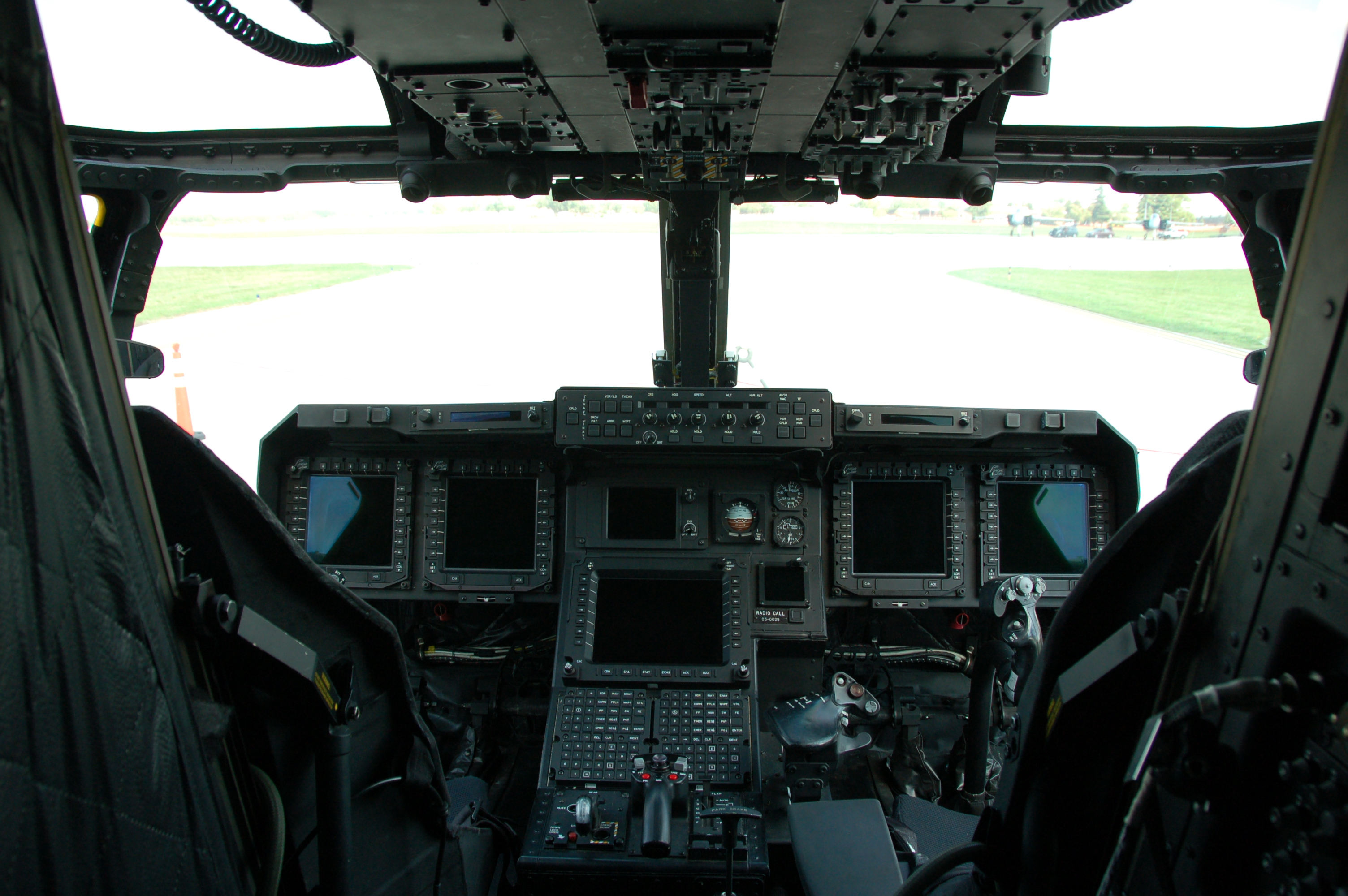 Cockpit view of the V-22 Osprey